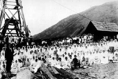 Peter Veregin 1907, British COlumbia